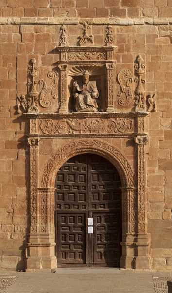 Concatedral San Pedro